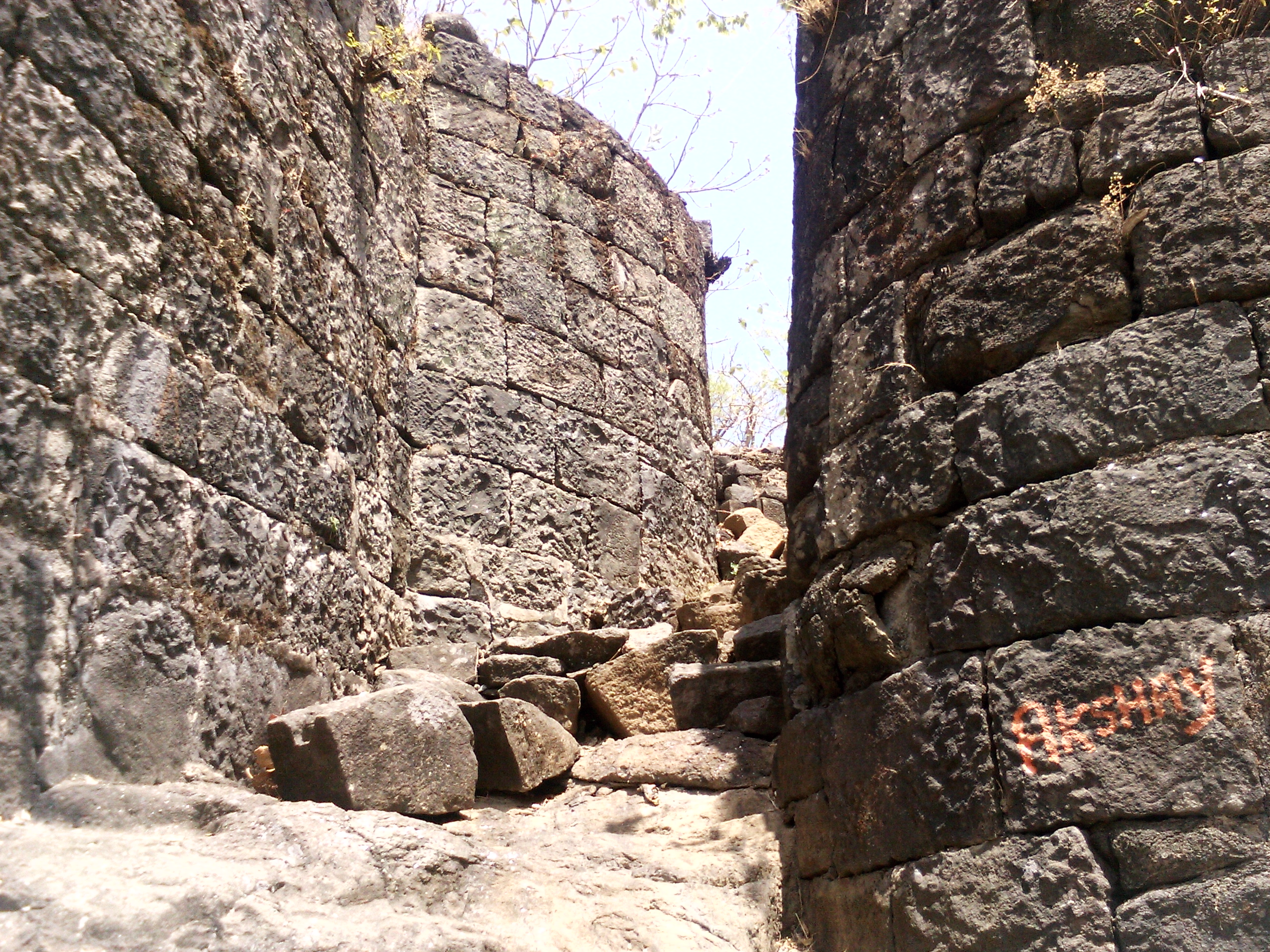 This is the enterance of fort after reaching to the top